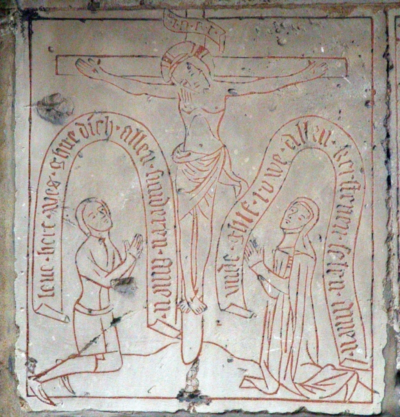 Braunschweig, Germany: St. Michael’s: Dedicators.